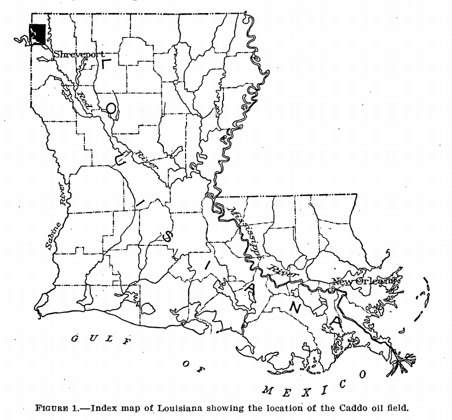 Index map of Louisiana showing the location of the Caddo oil field.